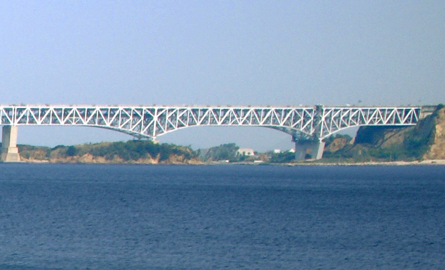 Yoshima Bridge, Kagawa prefecture, Japan